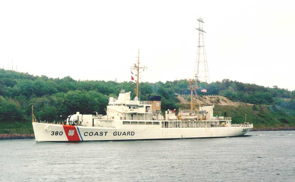 USCGC Yakutat (WHEC-380) former: RVNS Tran Nhat Duat (HQ-03) of Navy of South Vietnam This image or file is a work of a United States Coast Guard service personnel or employee, taken or made as part of that person's official duties. As a work of the U.S. federal government, the image or file is in the public domain (17 U.S.C. § 101 and § 105, USCG main privacy policy and specific privacy policy for its imagery server).